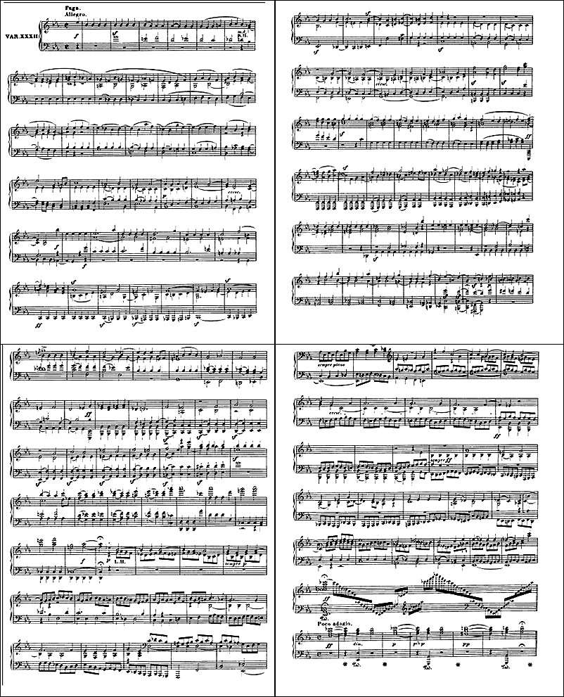 Beethoven, Diabelli Variations, Var. 32